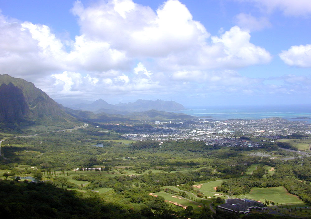 View of Kāne‘ohe, Hawai‘i from the lookout above the Nu‘uanu Pali